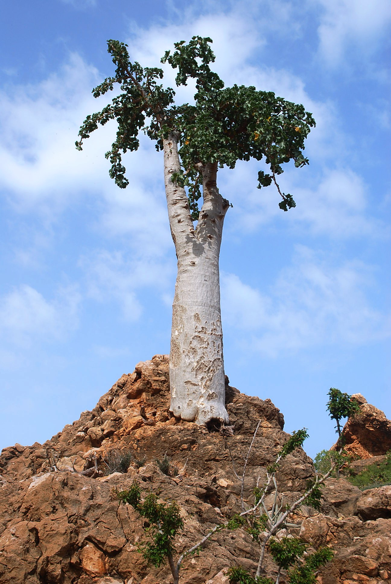 tree island cucumber yemen socotra soqotra